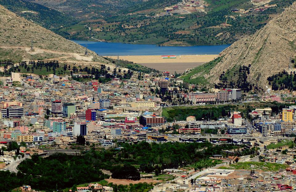 View on the city of Duhok with the Duhok Dam in the background.